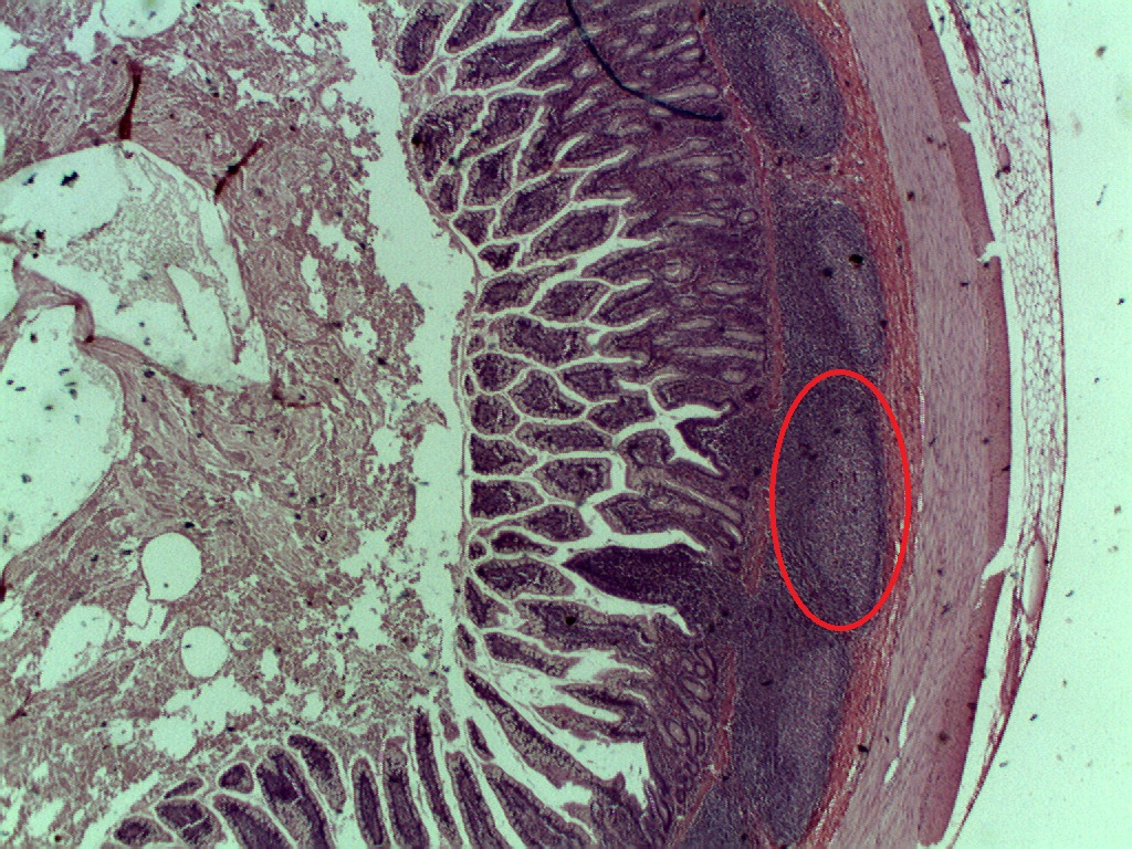 A picture of Peyer's Patches, which are organized lymphoid nodules commonly found in the small intestines. This histology section was taken from the ileum (NOT jejunum), the final section of the small intestines.